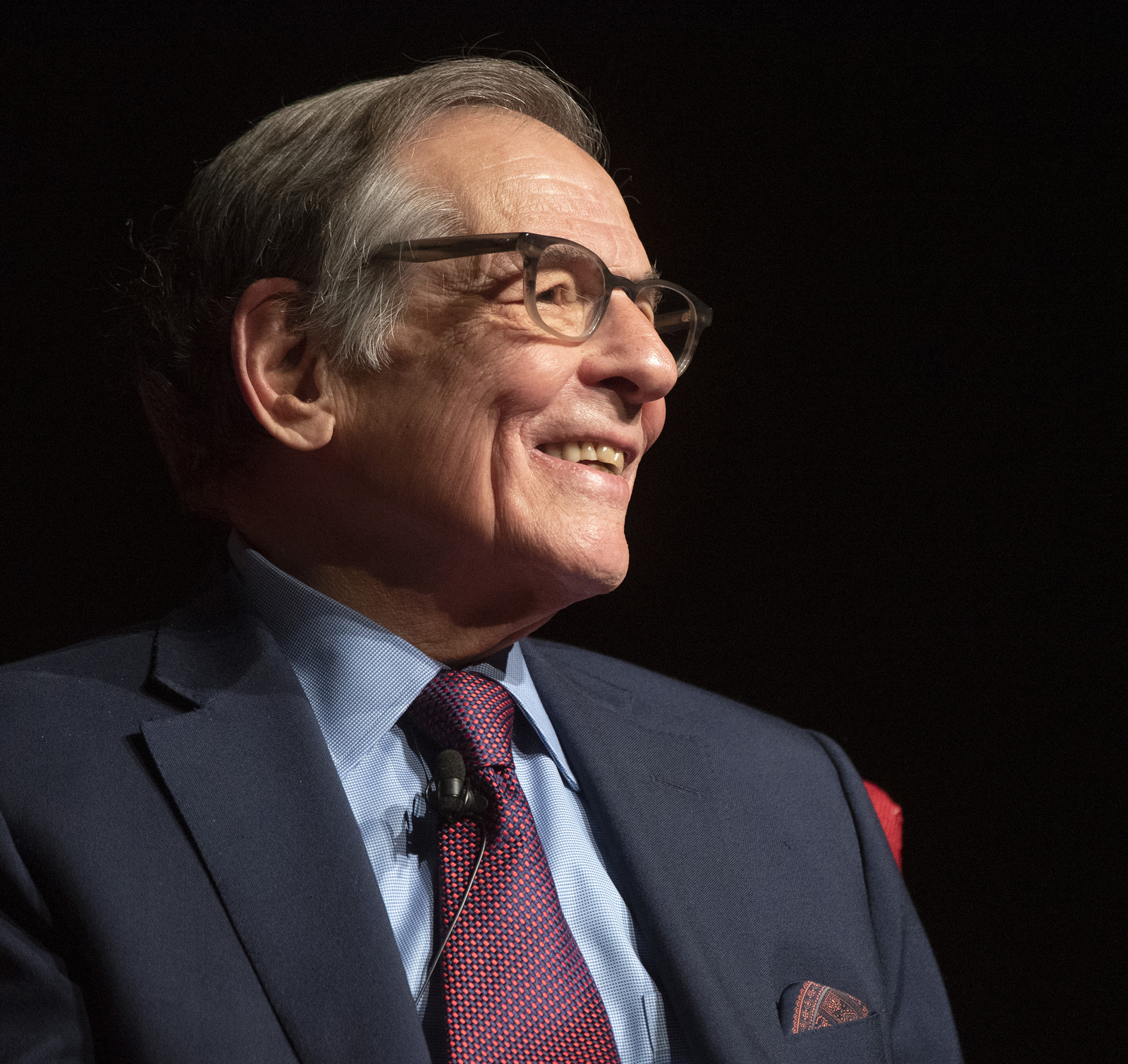 On Monday, April 15, 2019, two-time Pulitzer Prize-winning author Robert Caro joined Friends of the LBJ Library to speak about his new book, Working, a collection of vivid, candid, and deeply revealing stories about researching and writing his acclaimed books.